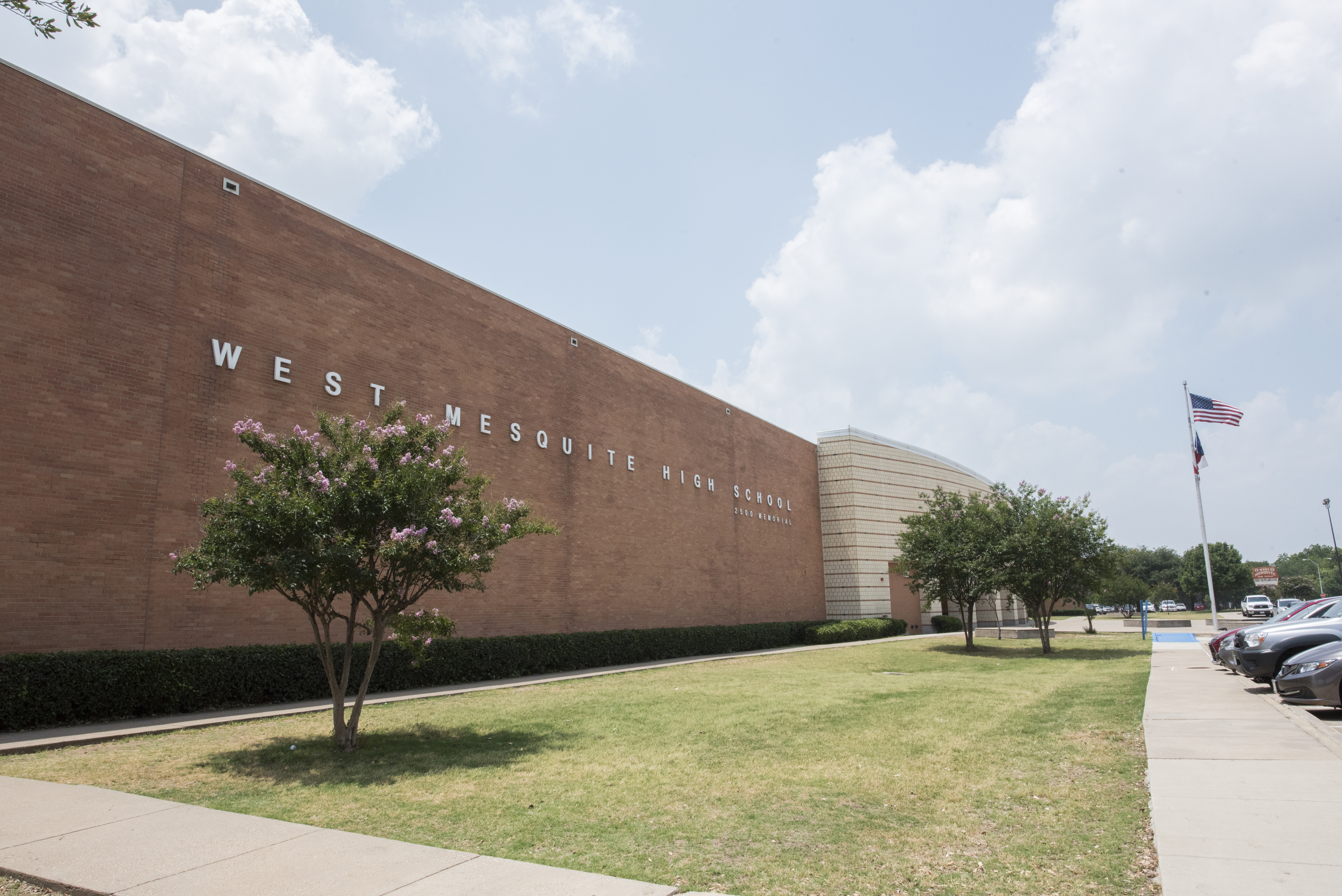 Outside of West Mesquite High School in Mesquite, Texas